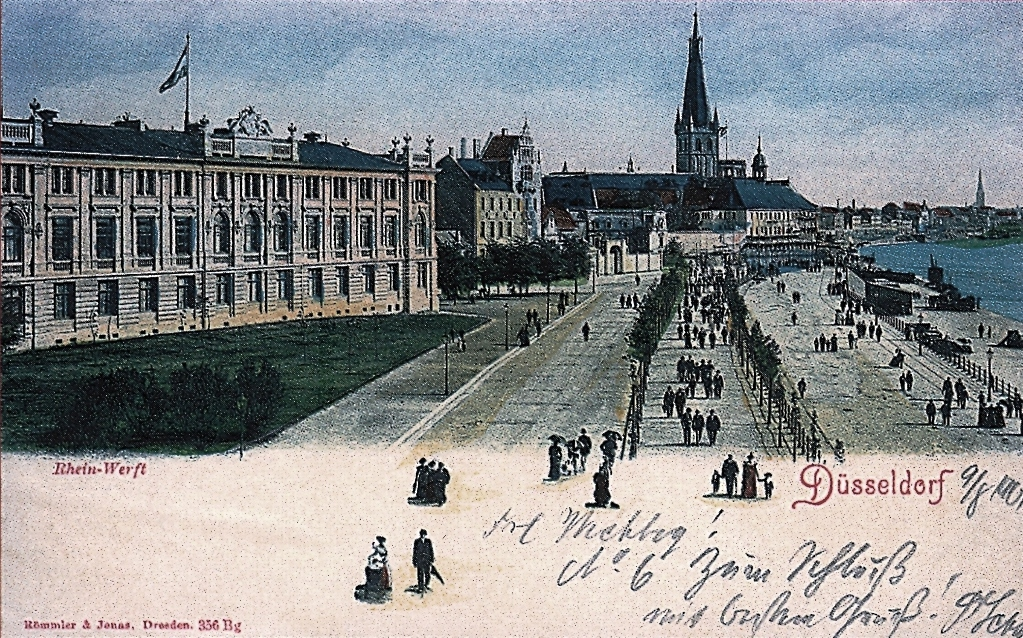 t